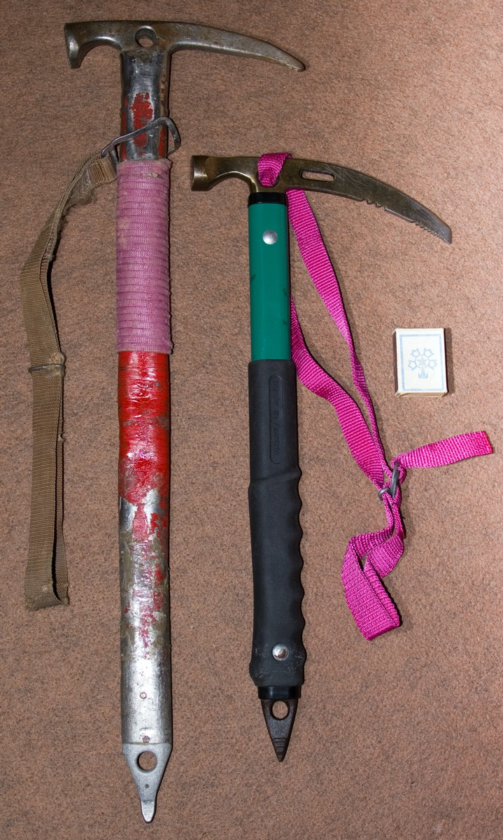 Ice climbing tools (from left to right): old-styled Eisbeil ((1950...1980) and modern (2000) one.